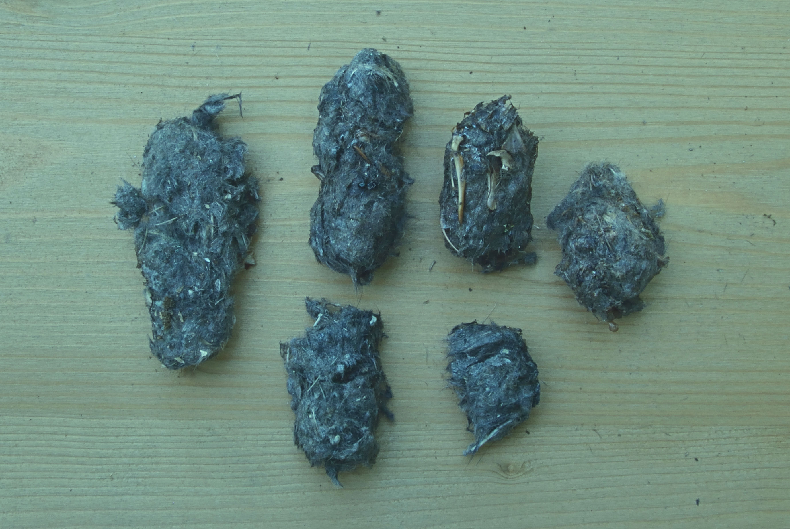 Athene noctua bird pellets, largest 6 cm long